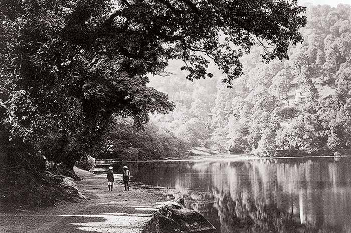 A view of the south end of the lake at Nainital, 1866—before the hordes ascended.